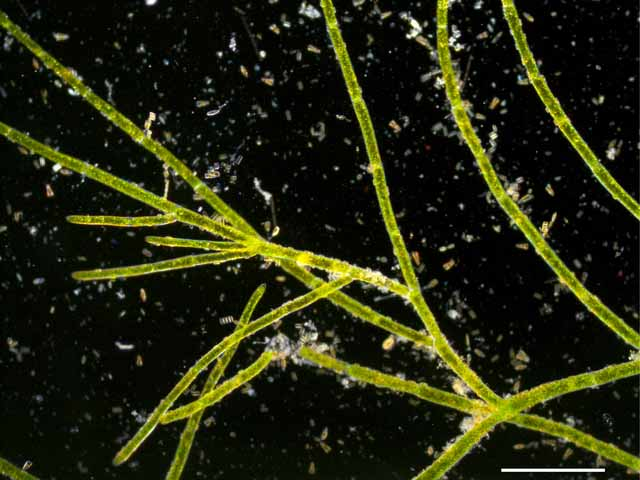 Overview Intercalary akinetes